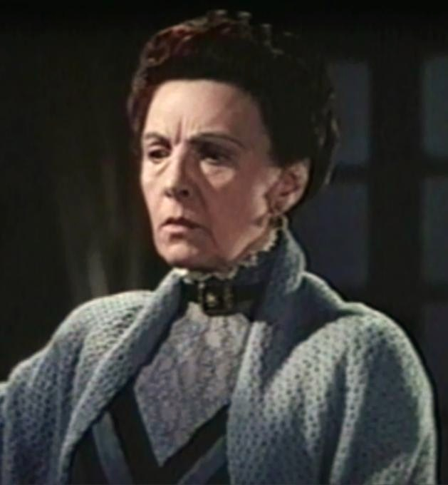 Mary Nash in The Little Princess - cropped screenshot